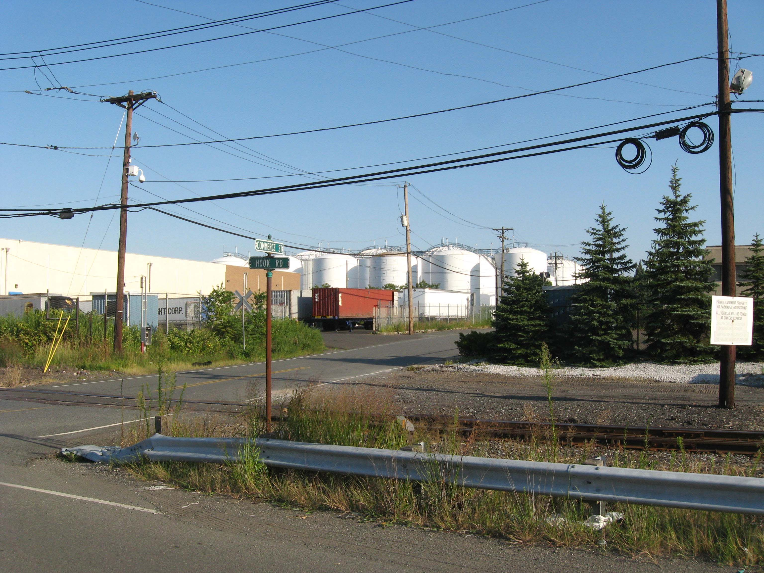 Looking southeast at oil tanks at the corner of Hook Road and Commerce Street in southern Constable Hook, New Jersey on a sunny afternoon